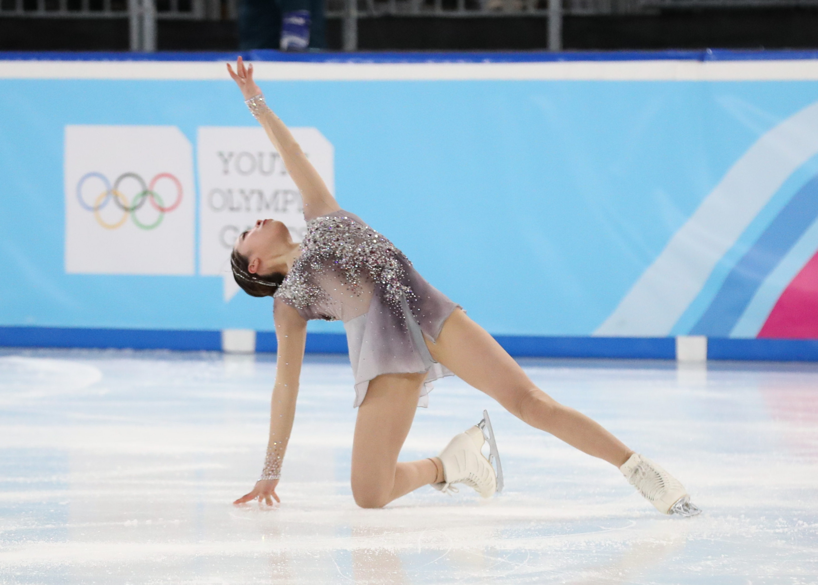 Women Single Figure Skating Short Program at the 2020 Winter Youth Olympics in Lausanne